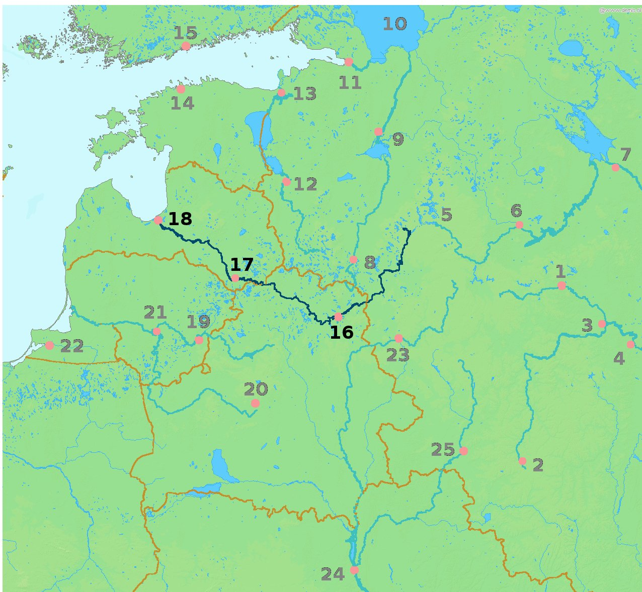 Map highlighting the river Daugava/Western Dvina (Daugava, Западная Двина́ (Zapadnaya Dvina), traditionally Дзвiна or newly Заходняя Дзвіна) flowing through Vitebsk (16), Daugavpils (17) and Riga (18).